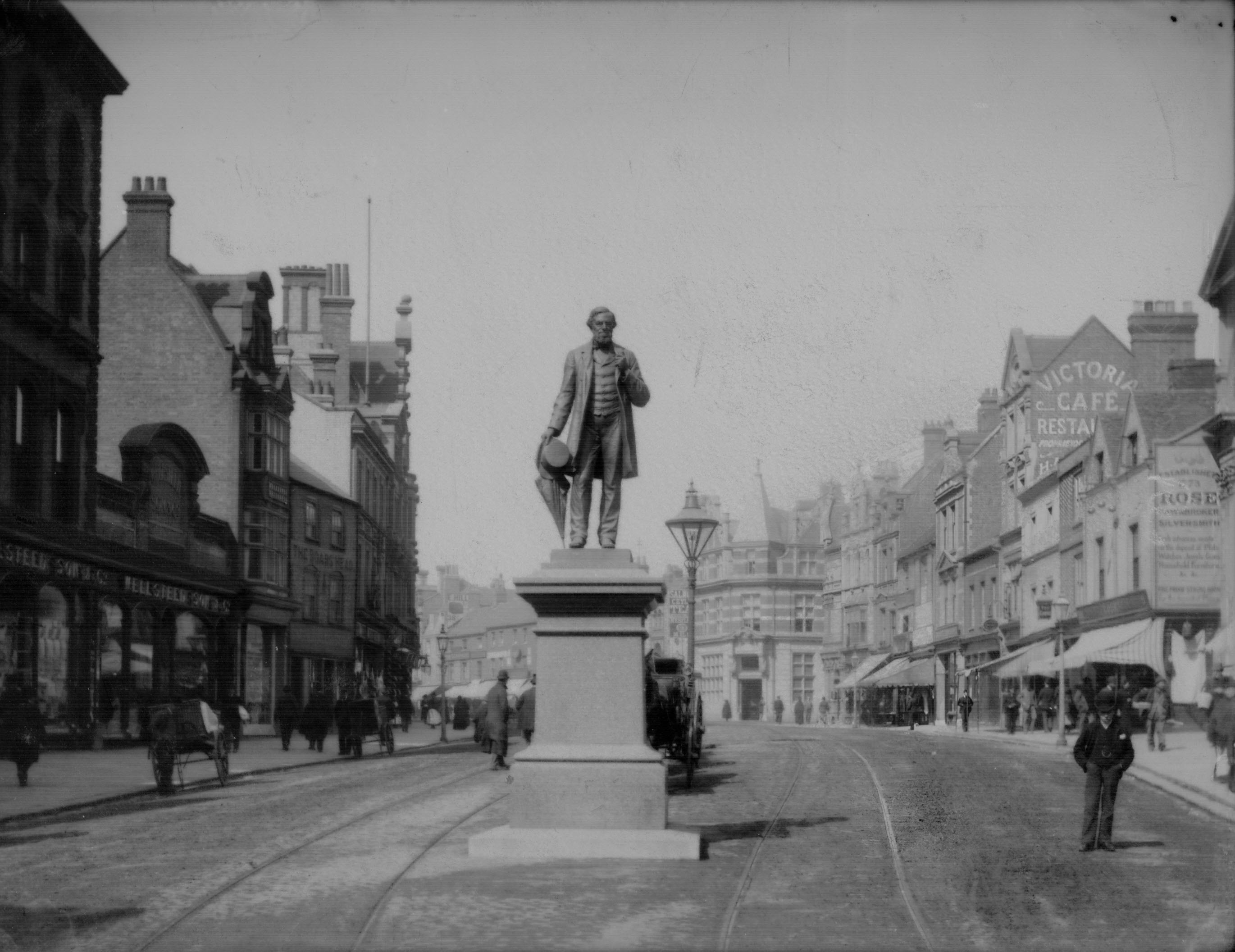 Broad Street, Reading, looking westwards, c. 1890. The statue of George Palmer stands in the foreground, and behind it, by a large gas-lamp, a cab waits. On the south side can be seen Nos. 127 and 126 (Wellsteed, Son and Company, drapers), and No. 125 (the Boar's Head Inn), and on the north side Nos. 24 and 25 (Capital and Counties Bank); No. 13 (Victoria Cafe), and Nos. 9 and 10 (John Rose and Son, pawnbrokers). 1890-1899; glass negative by H. W. Taunt, Box 19 un-numbered 10 [in fact either 8132 or 8133].